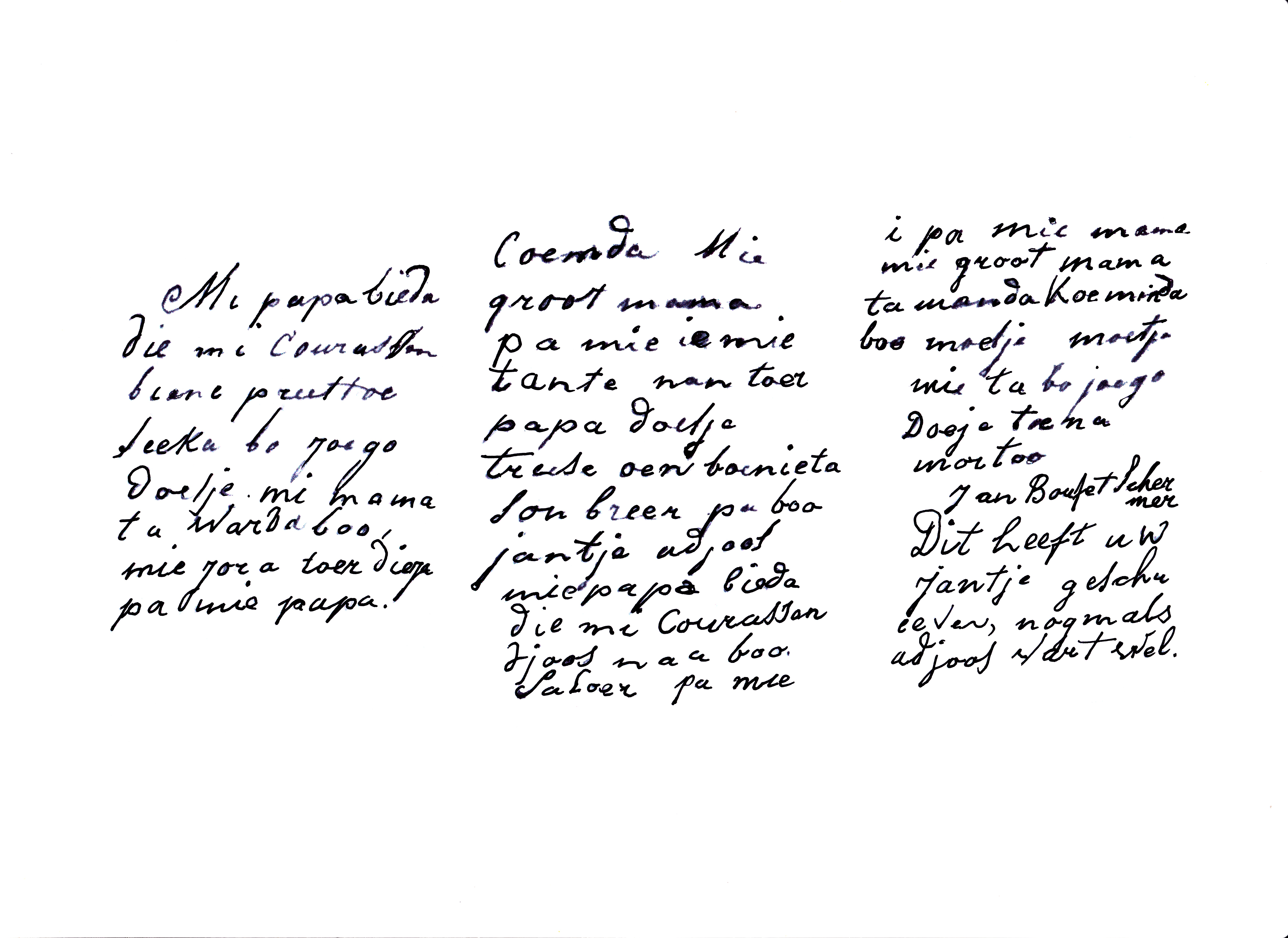 This is one of the oldest texts in Papiamento.